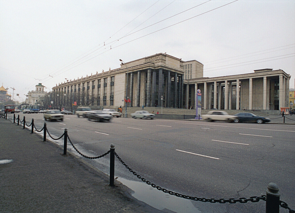 “Moscow's Russian State Library”. Moscow's Russian State Library (former Lenin Library), designed by architects Vladimir Shchuko and Vladimir Gelfreich, 1930-1960